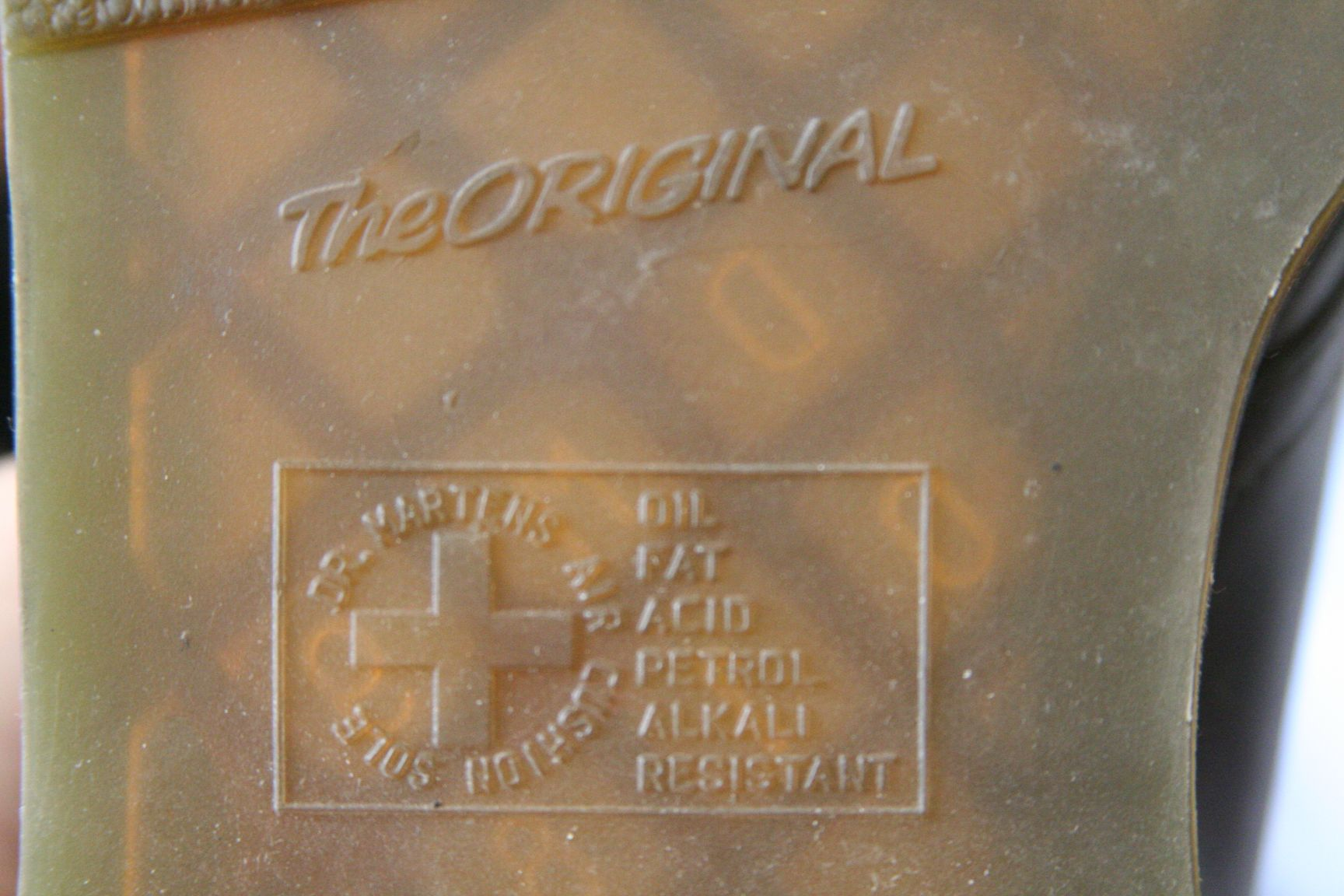 Sole of post-2003 Doc Martens. This pair was made in Thailand. Includes the famous stamp denoting the materials it is "resistant" to. Oil Fat Acid Petrol Alkali Resistant